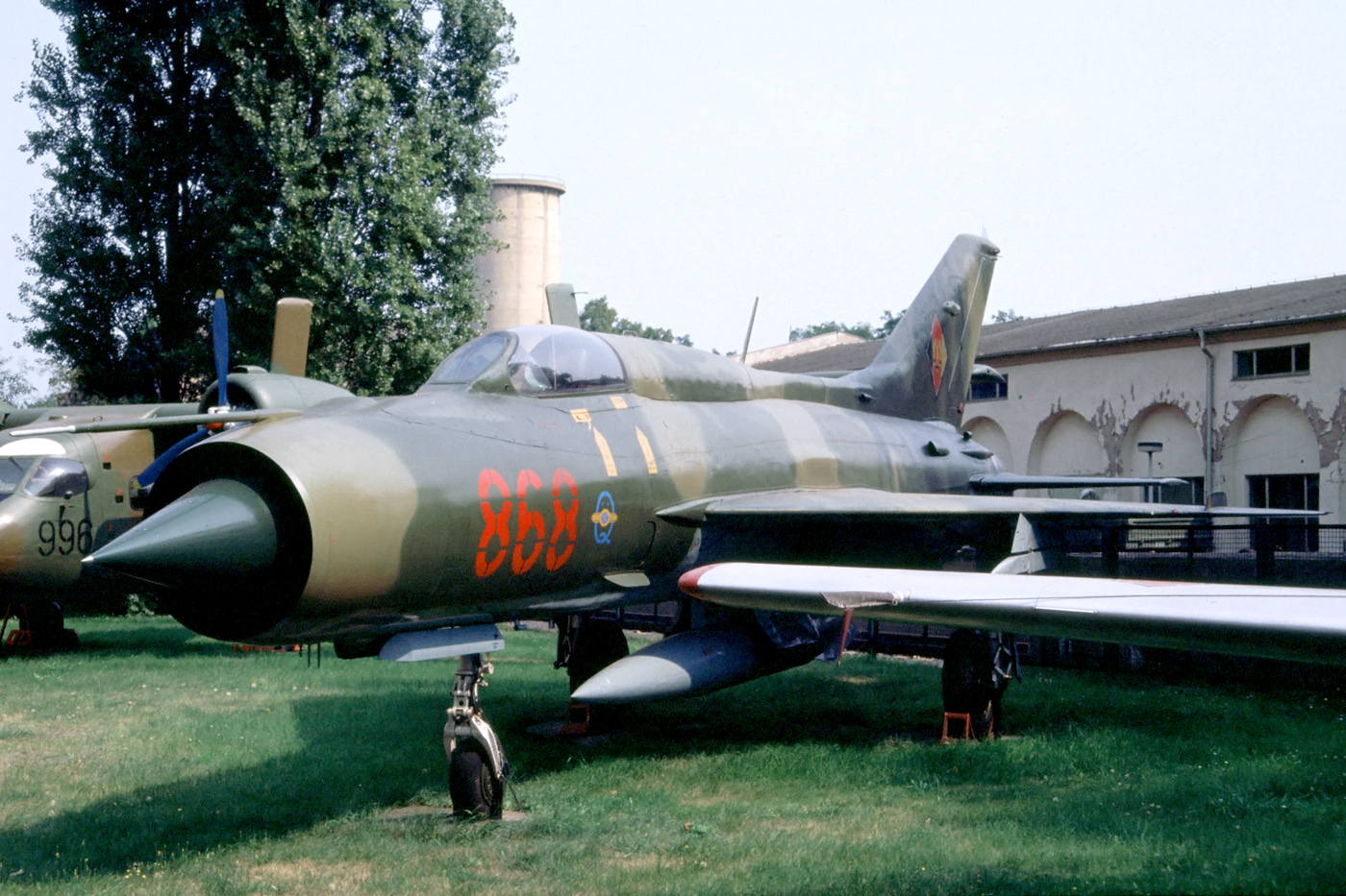 Militärhistorisches Museum Dresden, August 1990. This MiG-21PF is still in the collection, but preserved inside the building.